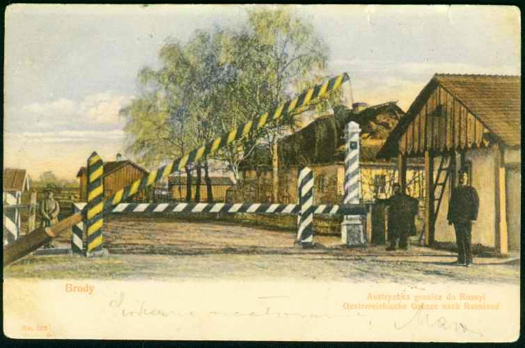 Border between Austro-Hungarian and Russian empires at BRODY (city in western Ukraine, then in Austrian-Hungary Empire) in 1905. Old postcard.